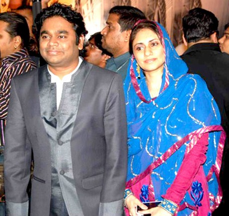 A R Rahman,Saira Banu From The Audio release of 'Enthiran - The Robot'